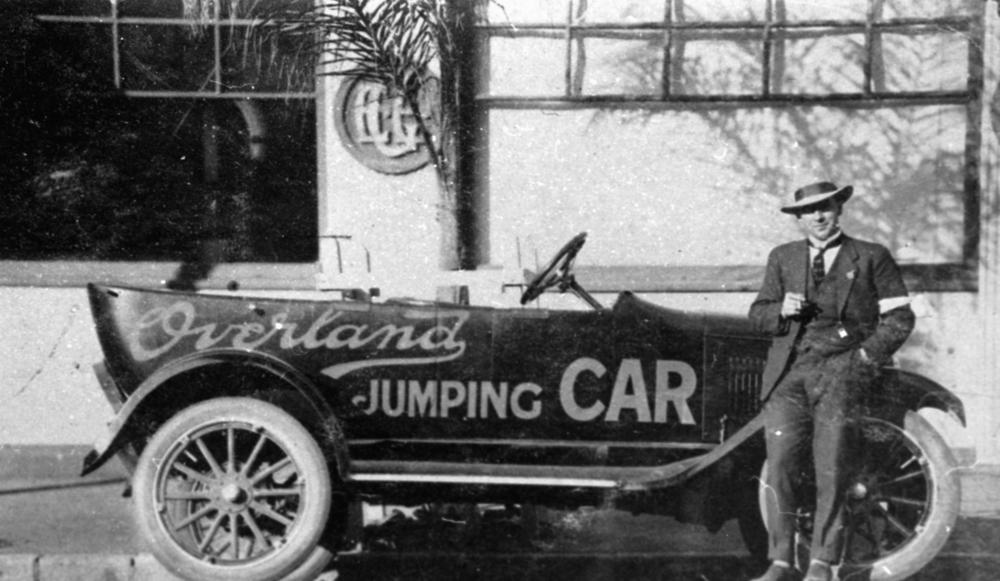 Overland Mystery tourer belonging to stuntman, Dobson, Clermont, ca. 1925 This vehicle is an American built Overland, one of the Mystery series, produced from 1919 - 1926. Tourer body with windscreen removed.